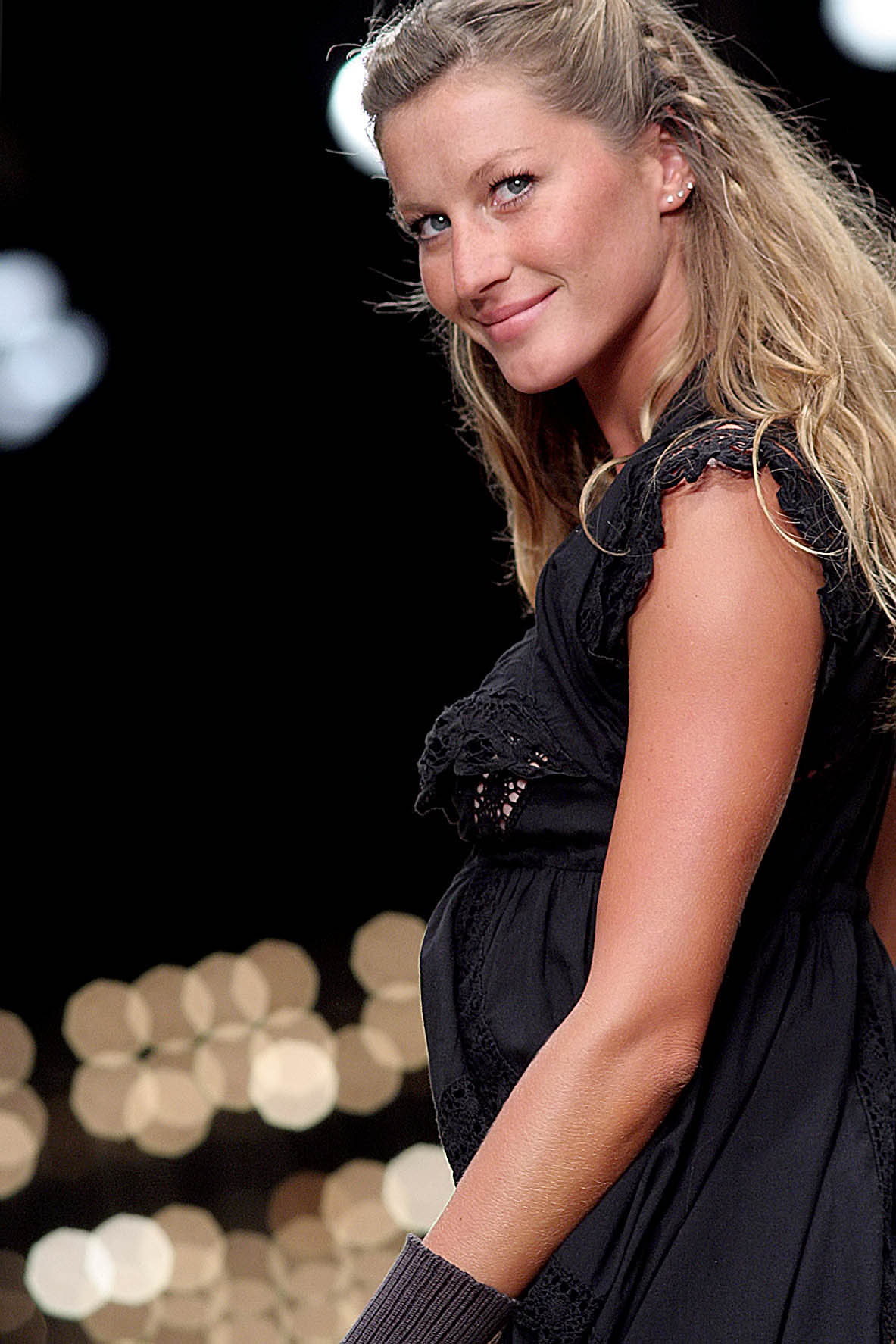 Brazillian model Gisele Bündchen at the Fashion Rio Inverno 2006. depicted person: Gisele Bündchen (age: 25)